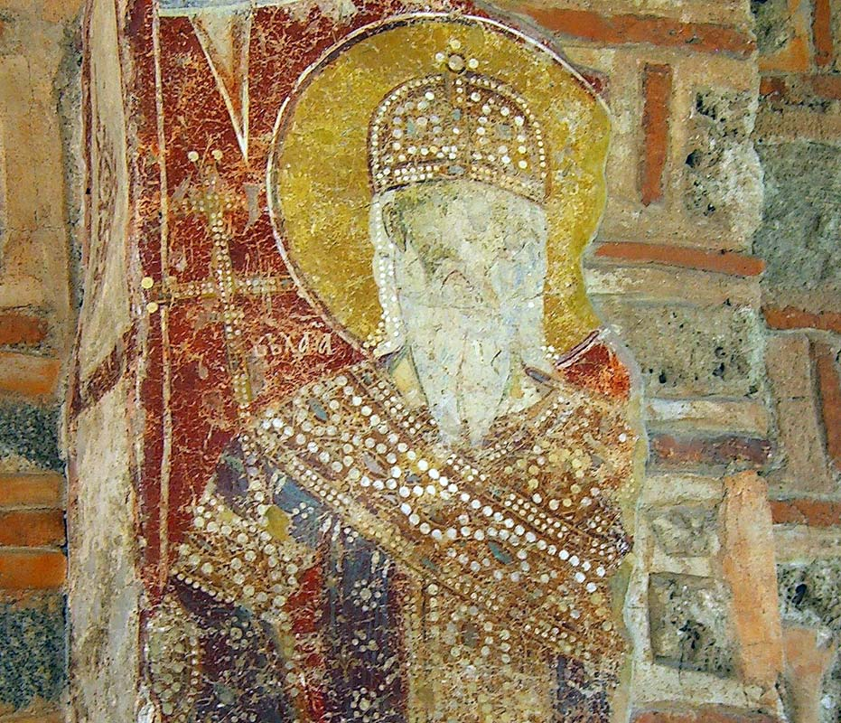 Painting of King Volkašin, close up. St. Michael the Archangel Church, Varoš Monastery, Prilep, Macedonia